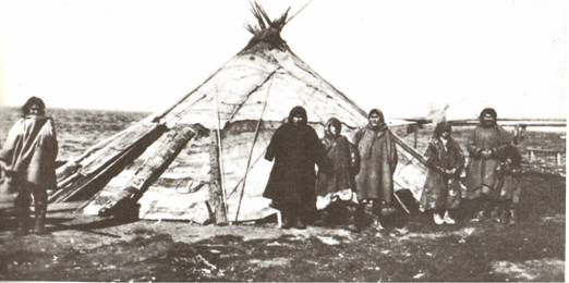 Khant Family in front of the Chum